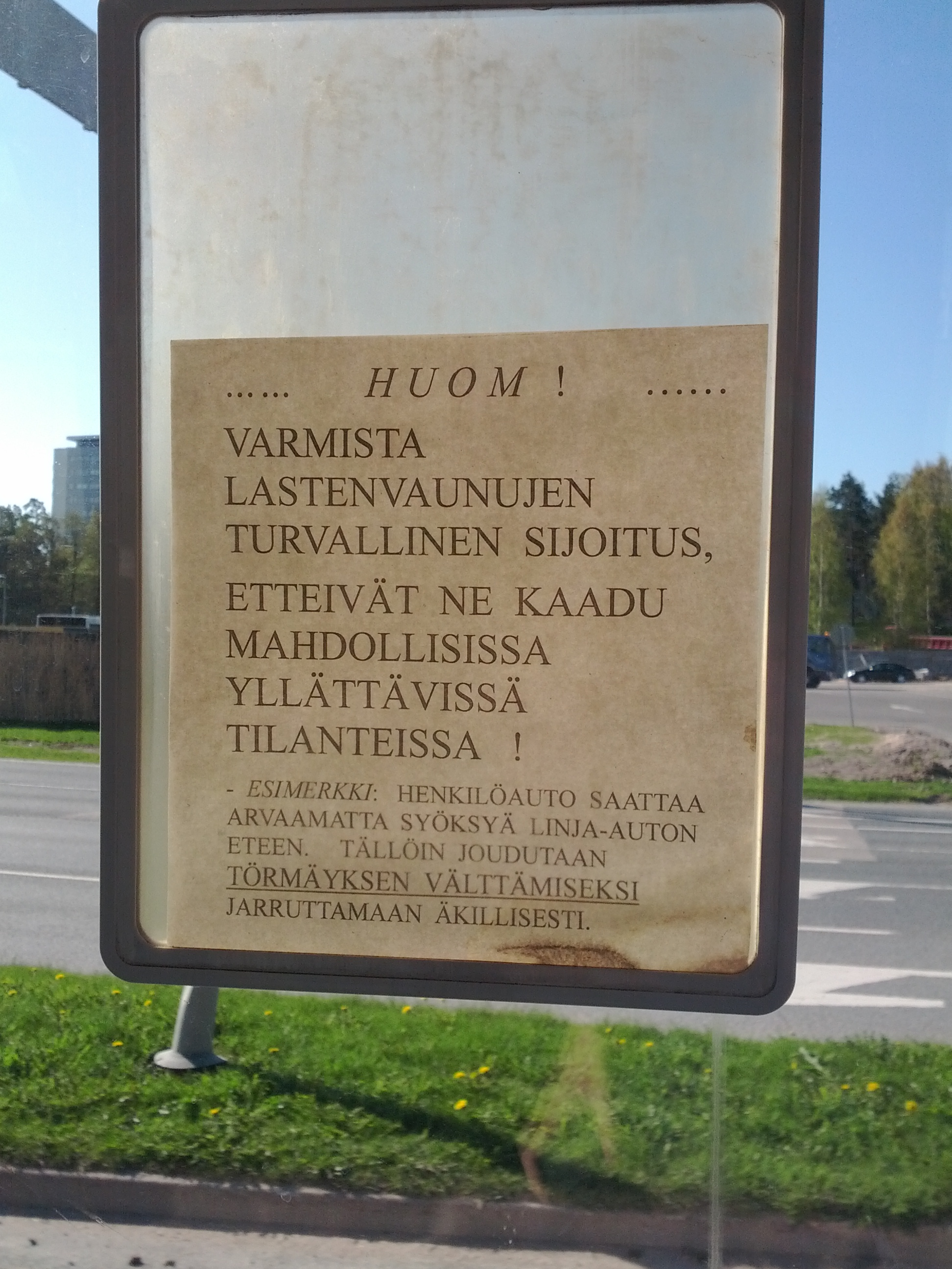 A note on a bus window, reading Huom! Varmista lastenvaunujen turvallinen sijoitus, etteivät ne kaadu mahdollisissa yllättävissä tilanteissa. Esimerkki: Henkilöauto saattaa arvaamatta syöksyä linja-auton eteen. Tällöin joudutaan törmäyksen välttämiseksi jarruttamaan äkillisesti. ("Note! Make sure the secure placement of the prams, so that they don't fall over in possible surprising events.") The trio mahdollisissa yllättävissä tilanteissa exemplifies all types of Finnish vowel harmony, i.e. how the vowel in the -ssa/-ssä suffix is selected.